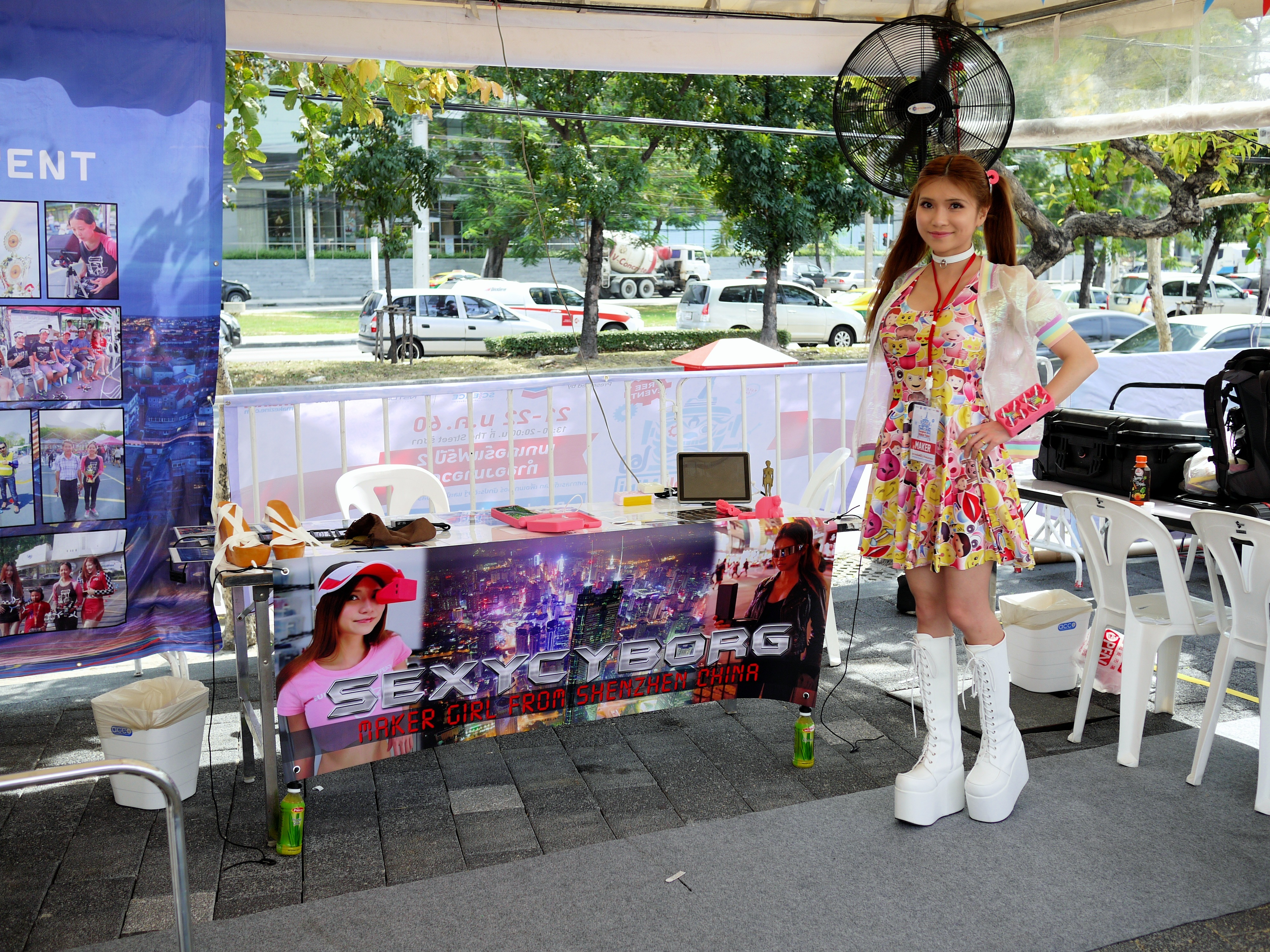 Naomi Wu (aka. SexyCyborg) a Maker and DIY enthusiast from Shenzhen China, exhibiting at the 2017 Bangkok Mini Maker Faire